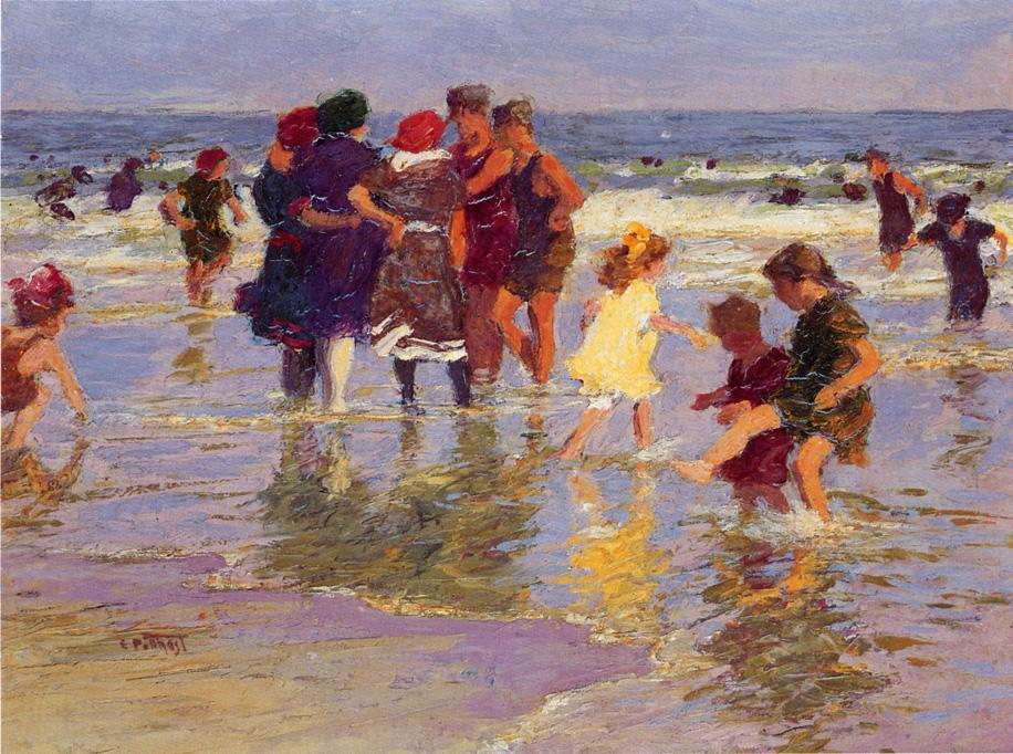 A July Day